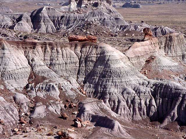 Painted desert in Arizona